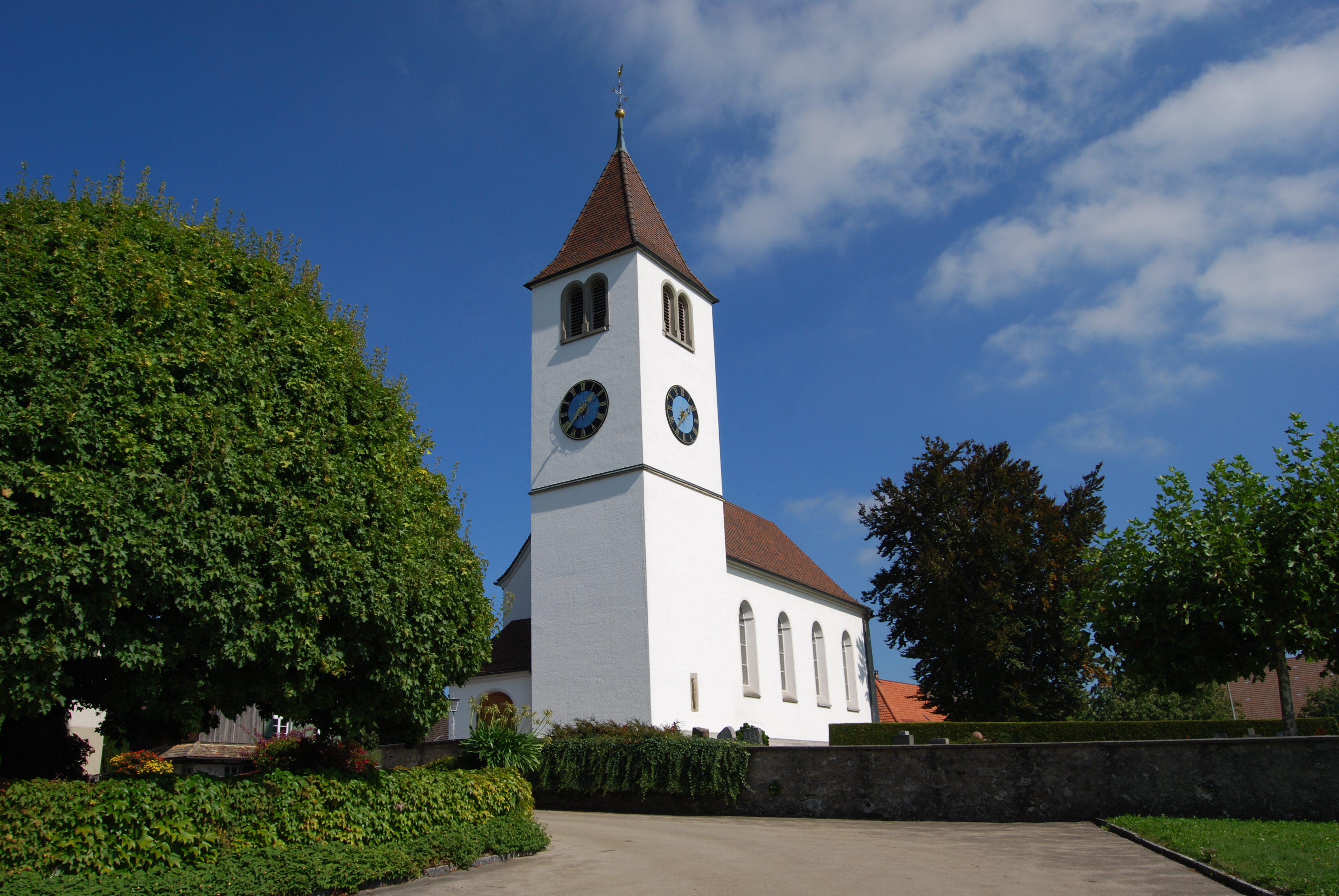 Church of Leutmerken (KGS n. 5050), canton of Thurgovia, Switzerland